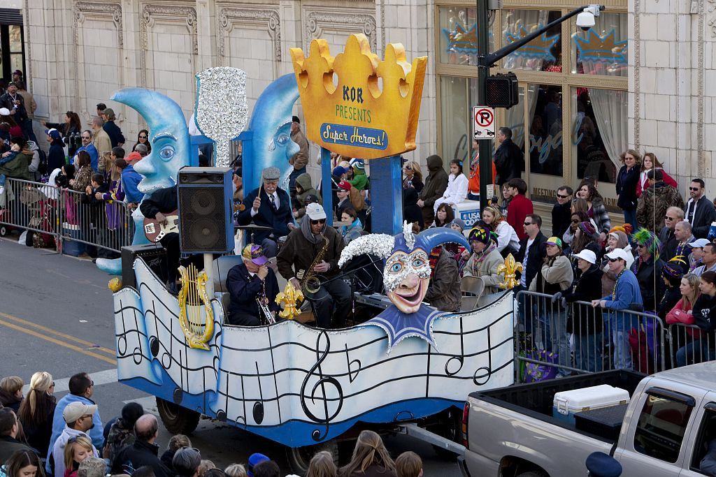 Mardi Gras, Mobile, Alabama.